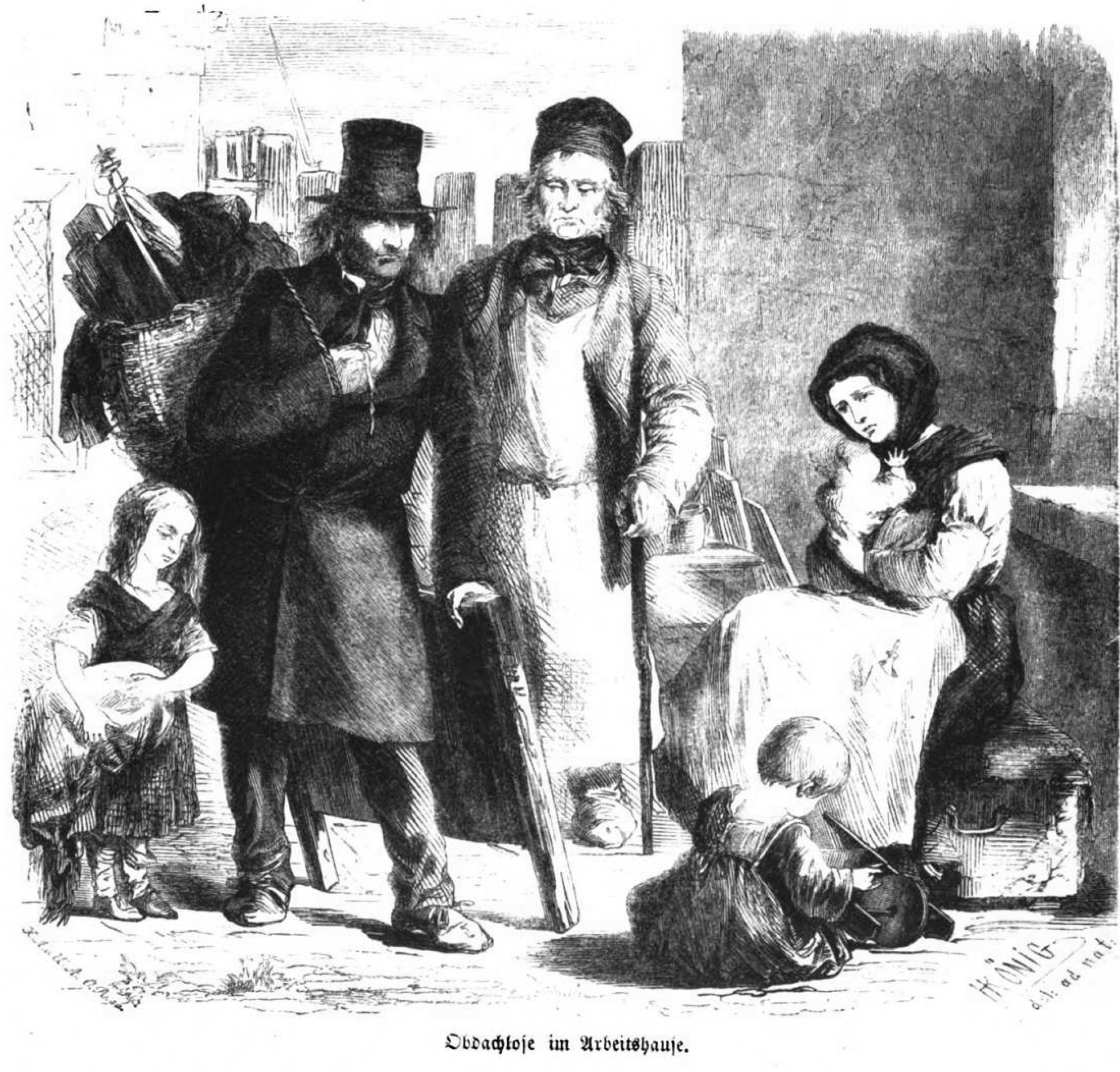 no caption